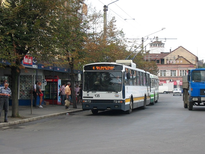 Rocar E412 trolleybus in Cluj-Napoca.